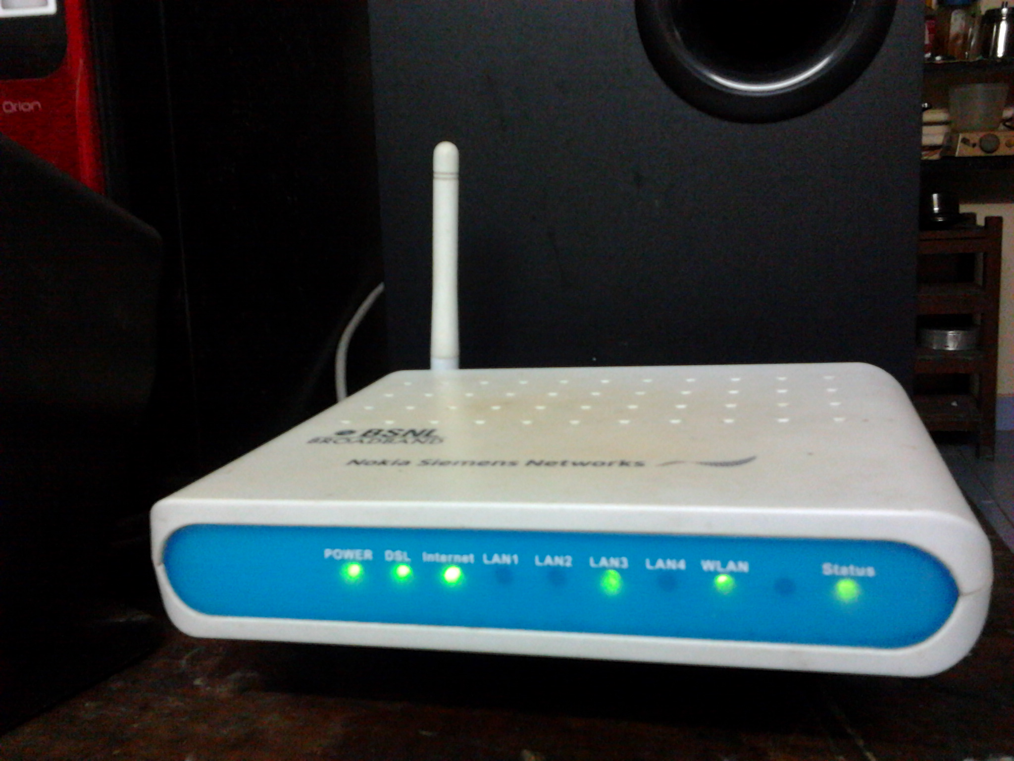 Photoed using Samsung Wave 525.